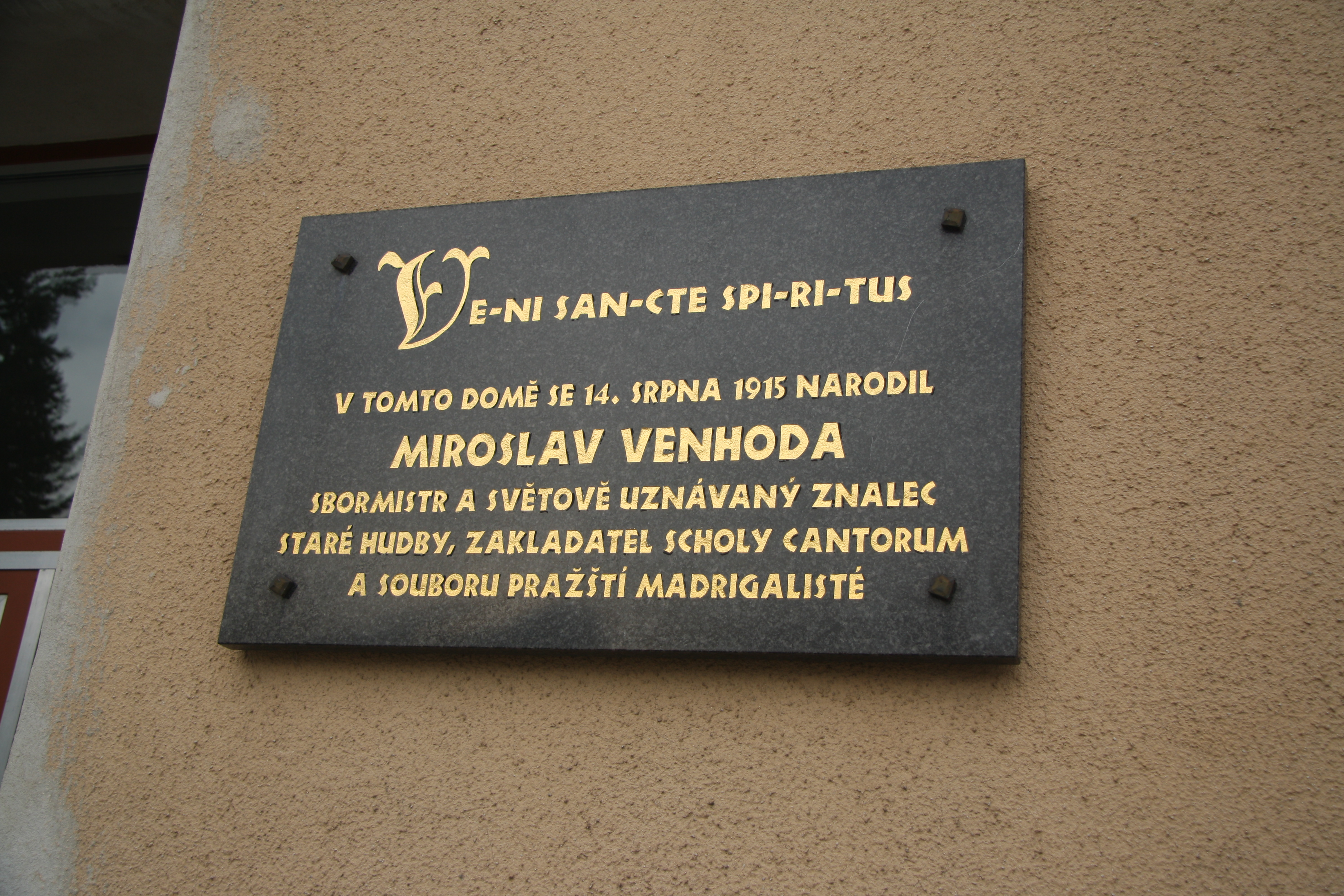 Overview of Plaque of Miroslav Venhoda at Tyršova 362 at Tyršova street in Moravské Budějovice, Třebíč District.